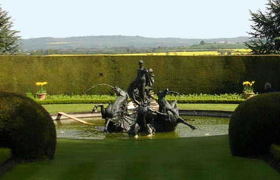 The fountain at Ascott House